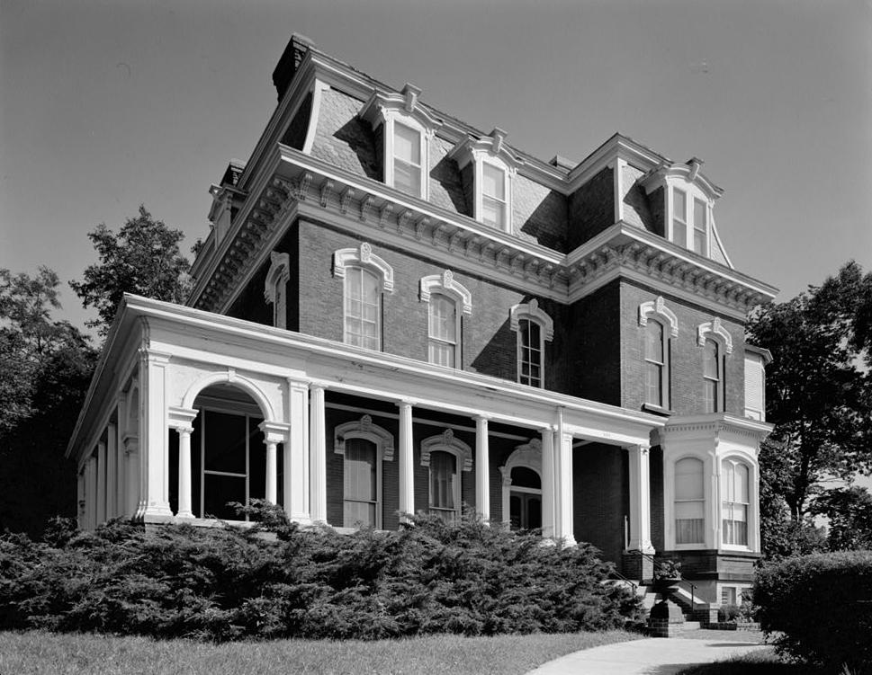 The Grenville M. Dodge House, the former residence of Grenville M. Dodge located at 605 S 3rd St, Council Bluffs, Iowa